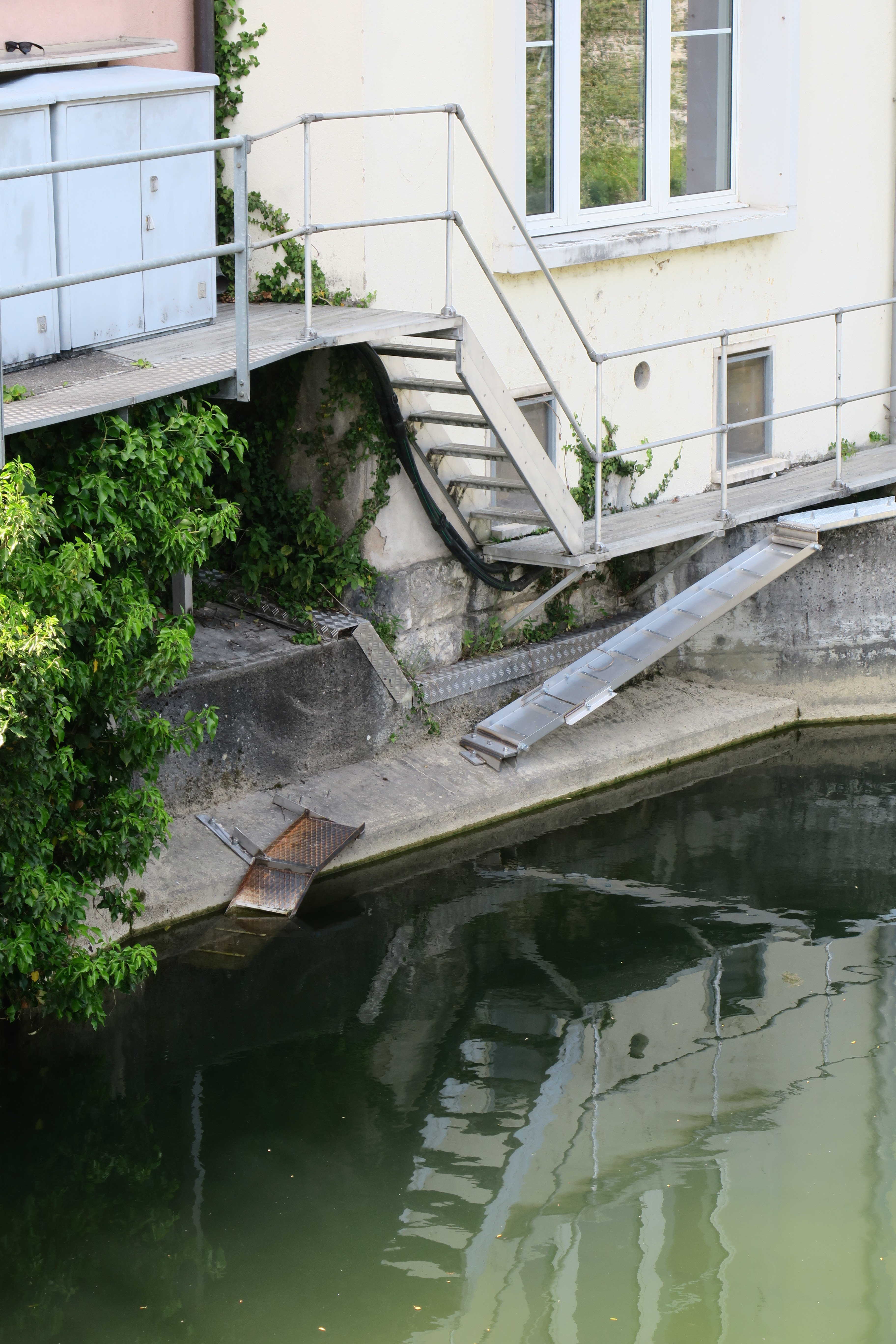 A "beaver ramp" in Laufen, Switzerland. To its left, the old fish pass can be seen. This ramp enables beavers to colonize new habitats without leaving the river.